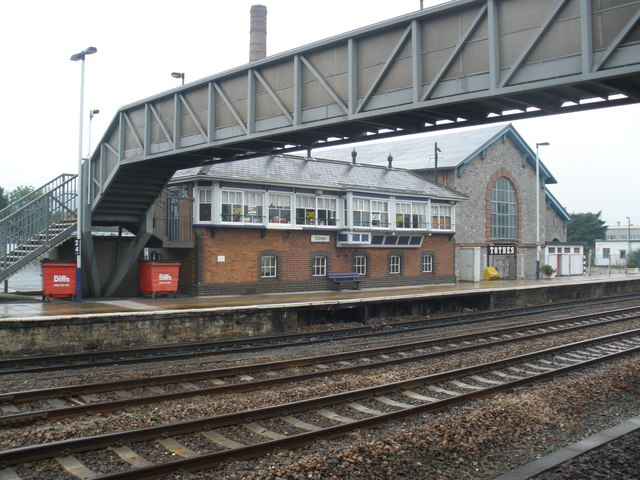 The Signal box Cafe, Totnes Railway Station